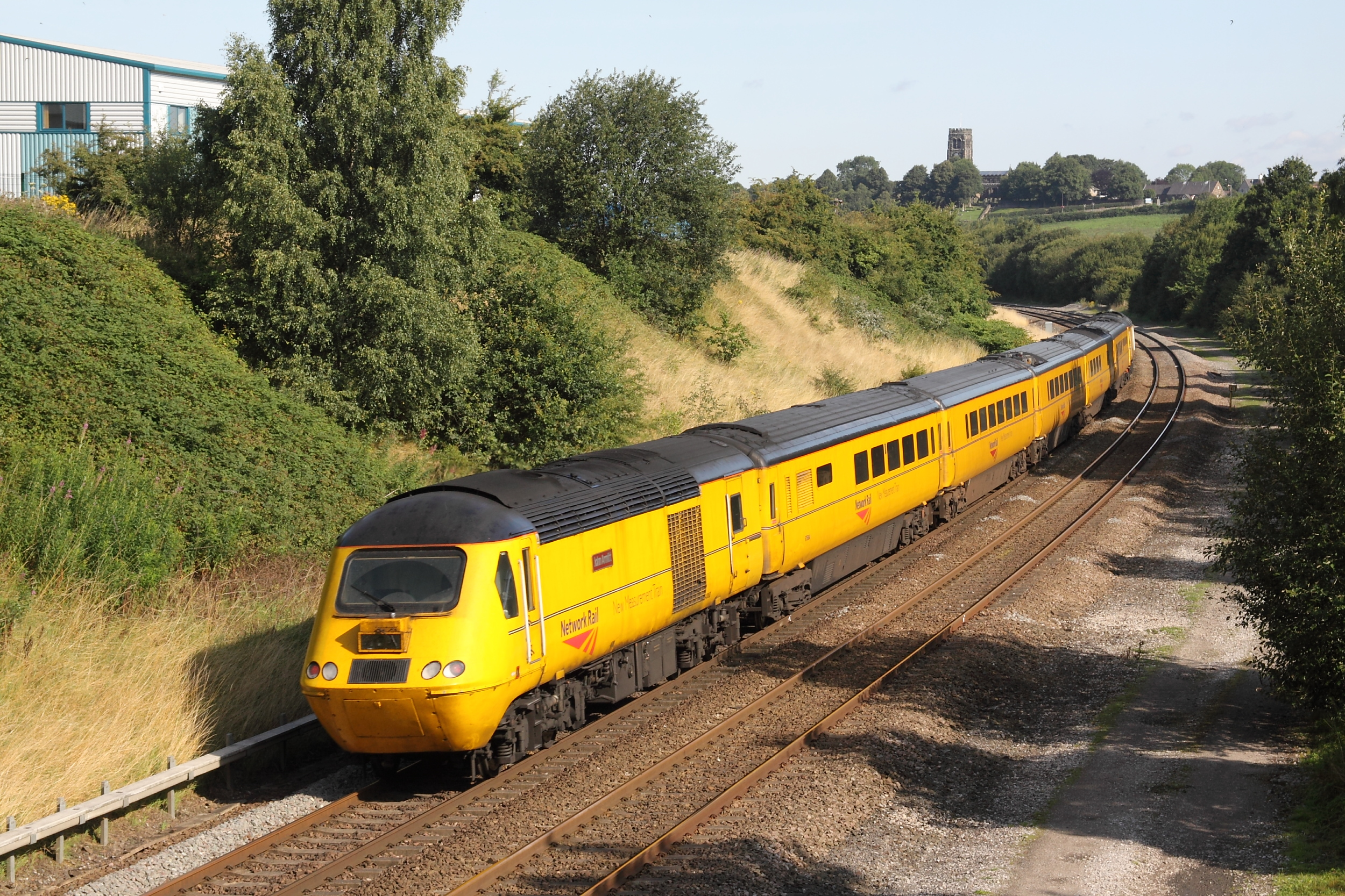 43014 and 43062 pass Danesmoor working 1Q28 Derby RTC - Heaton TMD New Measurement Train